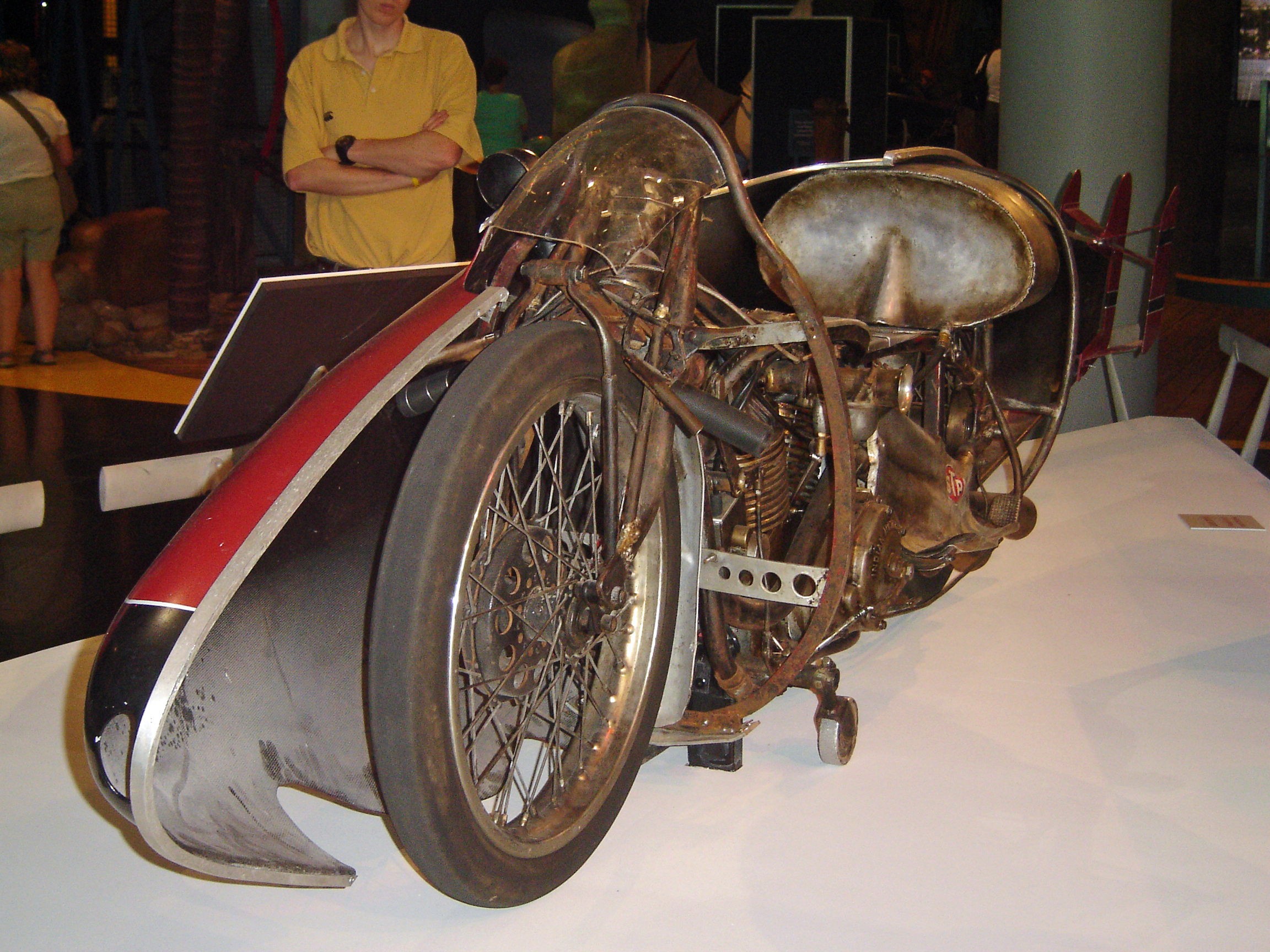 Replica of The 1920 Indian motorcycle used by Burt Munro to break the land speed record on display at Te Papa, photographed by DO'Neil. The replica reproduces the Munro's Indian in 1962, with three tail fins.